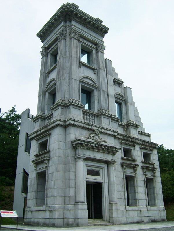 From the Meiji Mura village museum, Japan.